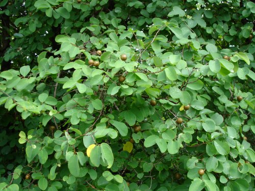 Medicinal Plant Cleistanthus collinus at fruiting stage